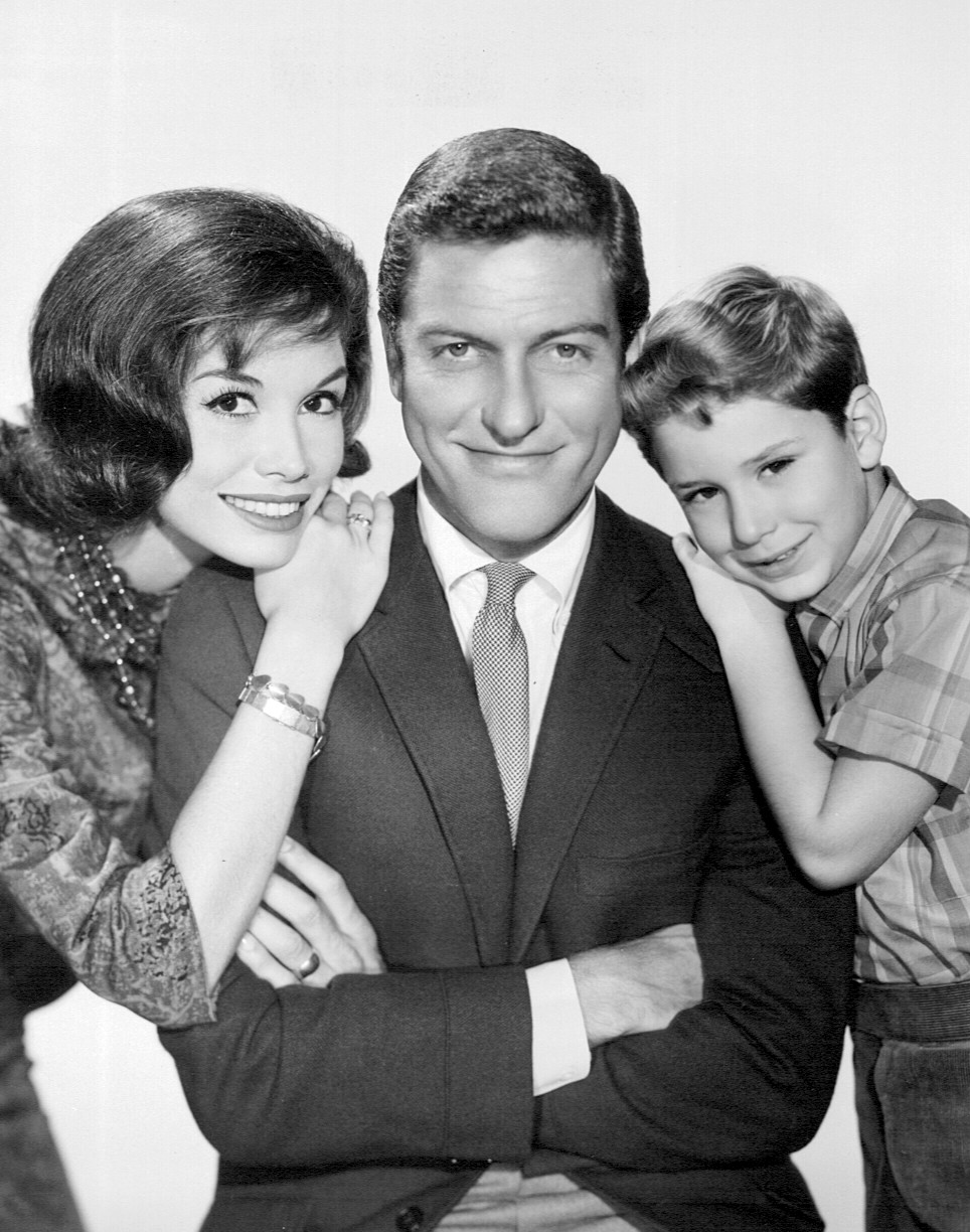 Photo of the Petrie family from the television program The Dick Van Dyke Show. From left-Mary Tyler Moore (Laura Petrie), Dick Van Dyke (Rob Petrie), Larry Mathews (Richie Petrie).